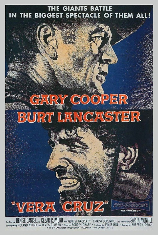 Vera Cruz Movie Poster